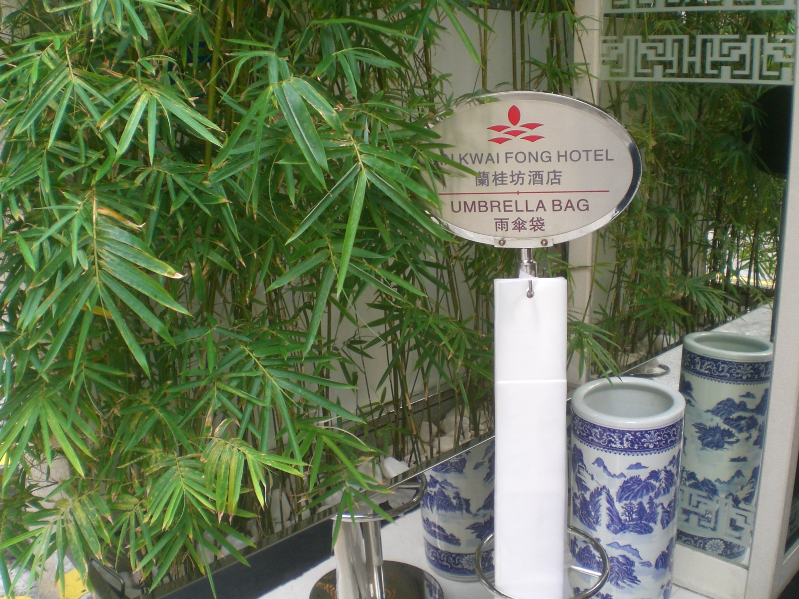 上環 九如坊 蘭桂坊酒店 膠袋